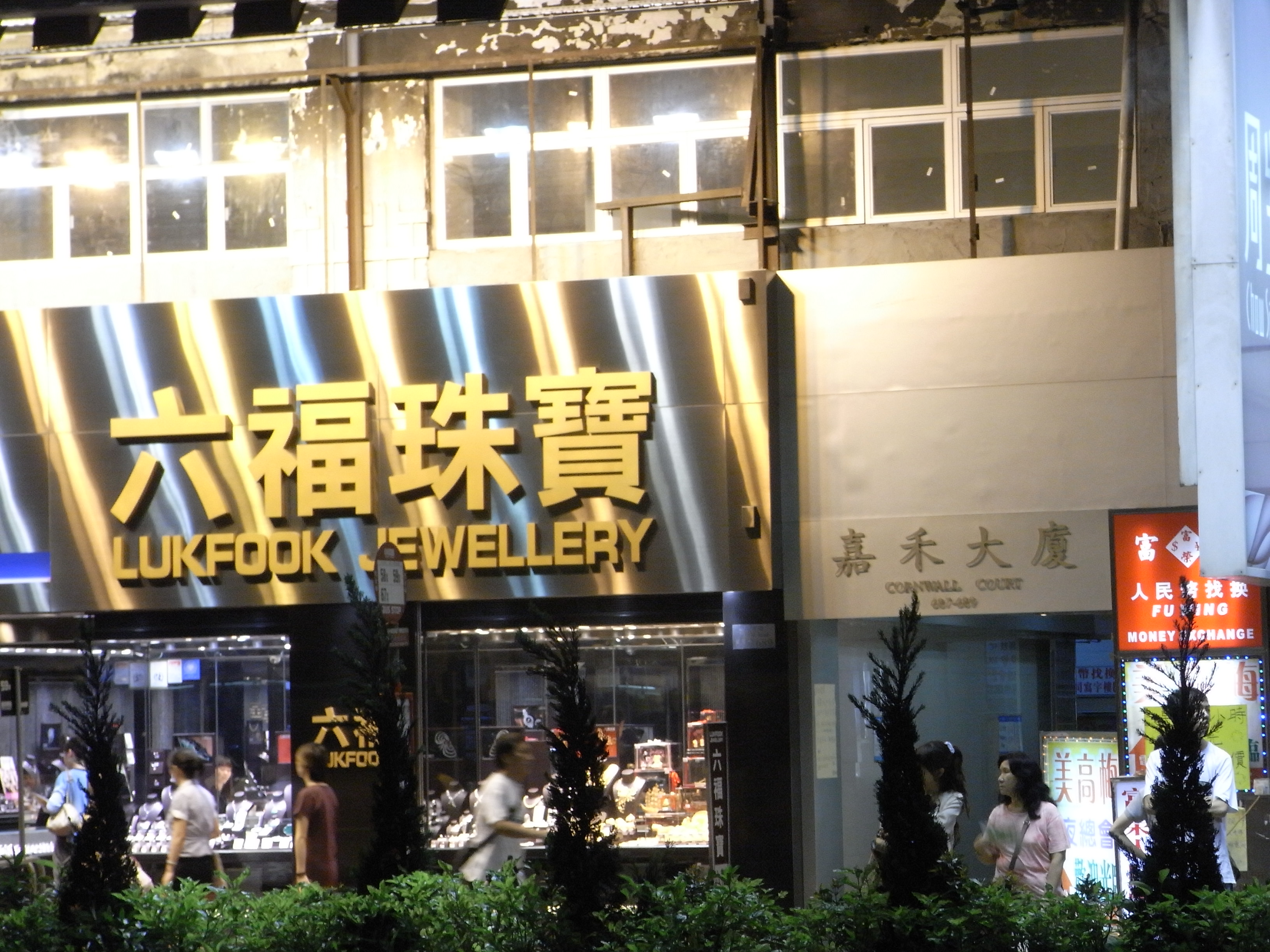 旺角嘉禾大廈在2010年6月